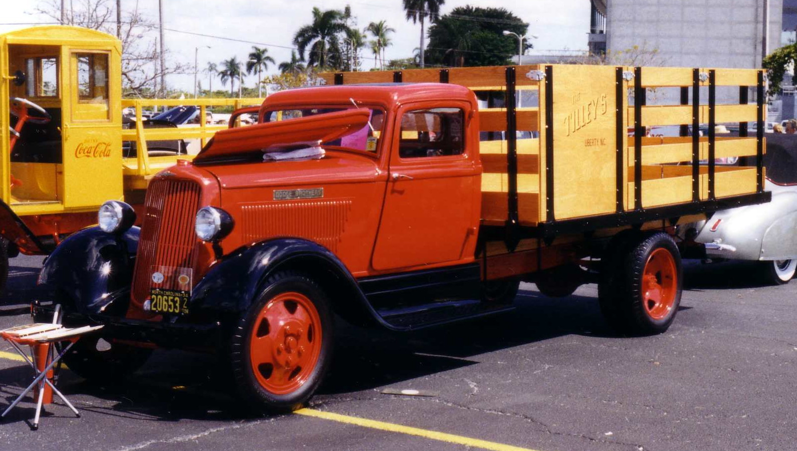 1934 Dodge Brothers K-34. This stake bed truck is finished in red. It has a vintage North Carolina "2-ton" license tag. Photographed at an AACA show in Florida.